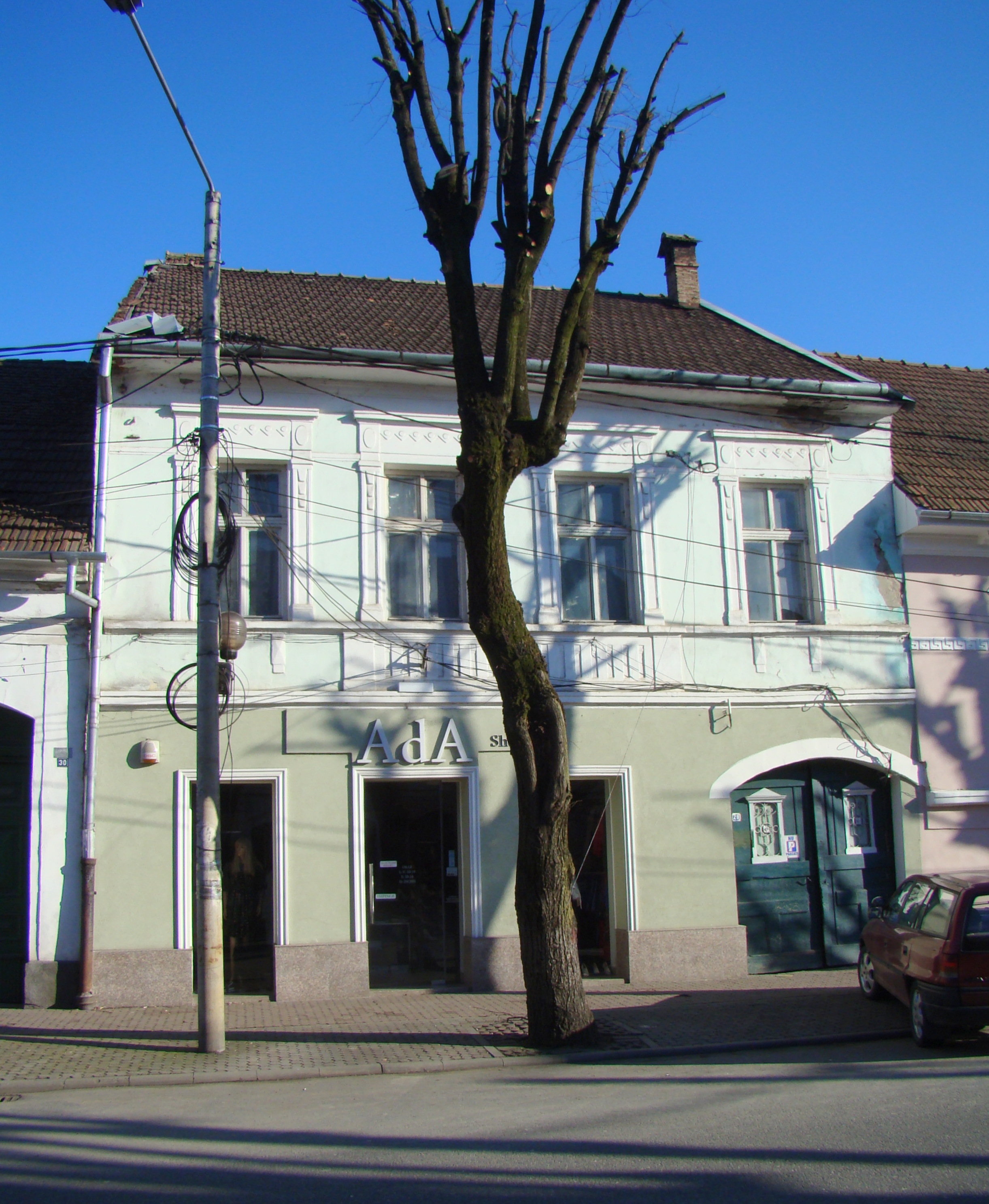 House, historic monument, in Bistriţa, Dornei street, number 28